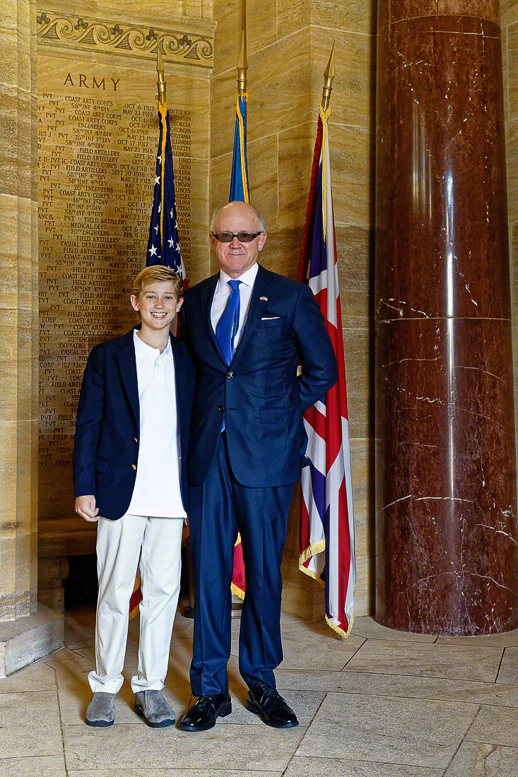 Mr Robert Johnson Ambassador of the United States of America to the United Kingdom of Great Britain & Northern Ireland with his son 'Brick' Johnson in the Chapel at the American Military Cemetery Brookwood on Memorial Day 2018